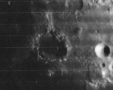 Lyell lunar crater image LOIV 066 H2